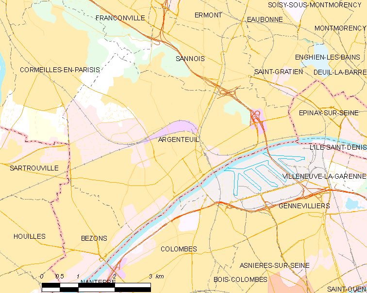 Map of French municipality Argenteuil